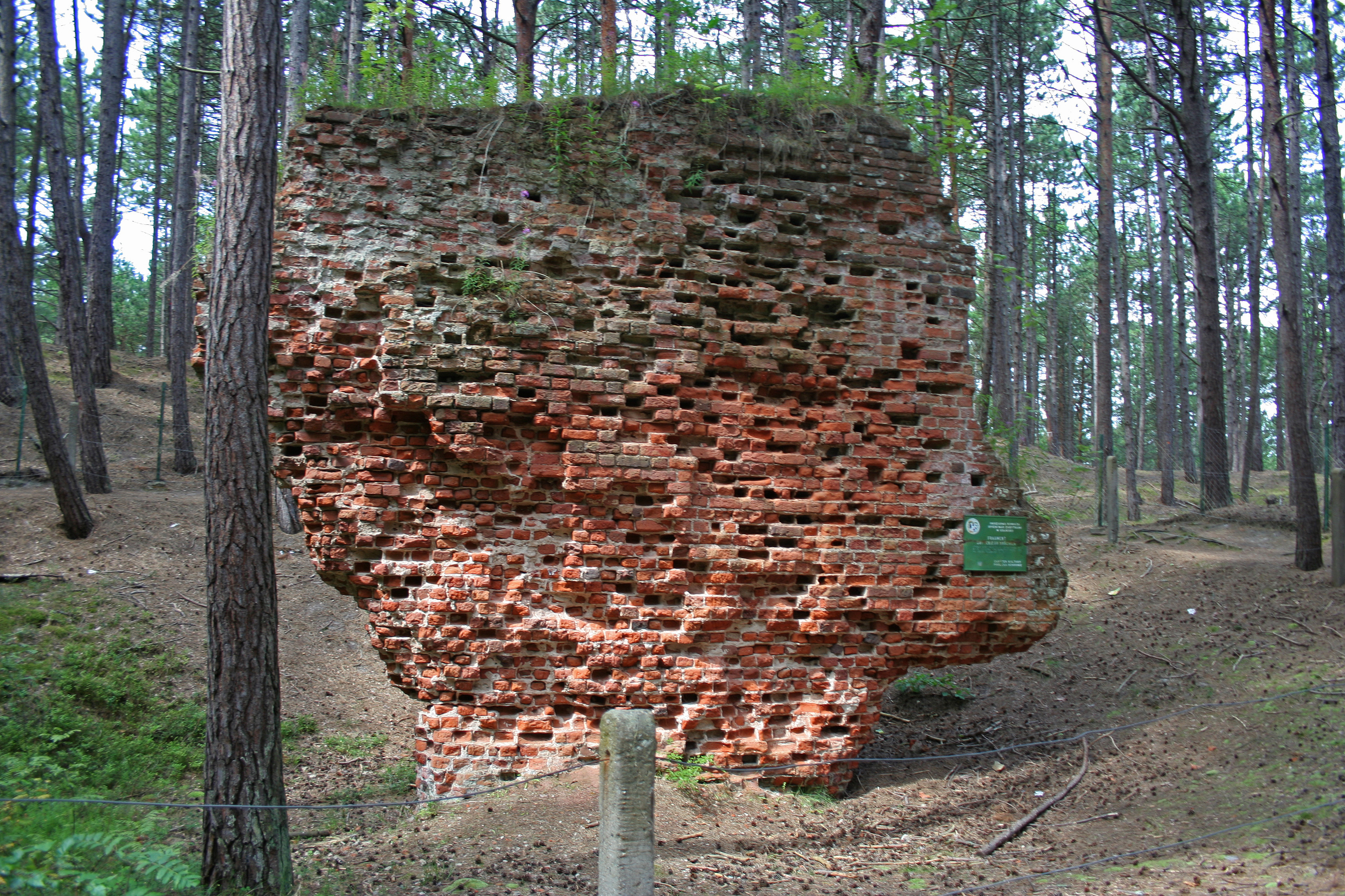 Ruins of old church in Łeba.